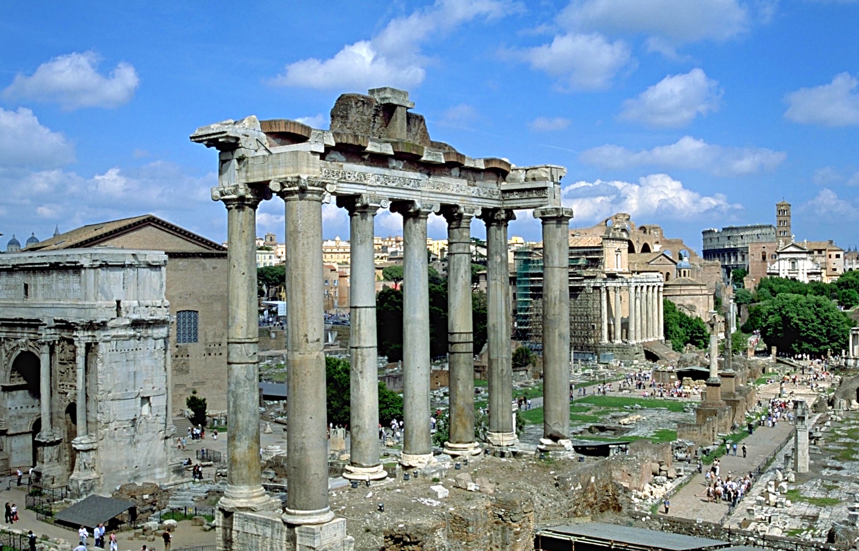 Forum Romanum, Rom Photo was taken using the following technique: Film: Fuji Velvia Lens: 2.4/100 Macro Filter: none Body: Minolta 9000 Support: none Image with Information in English Bild mit Informationen auf Deutsch